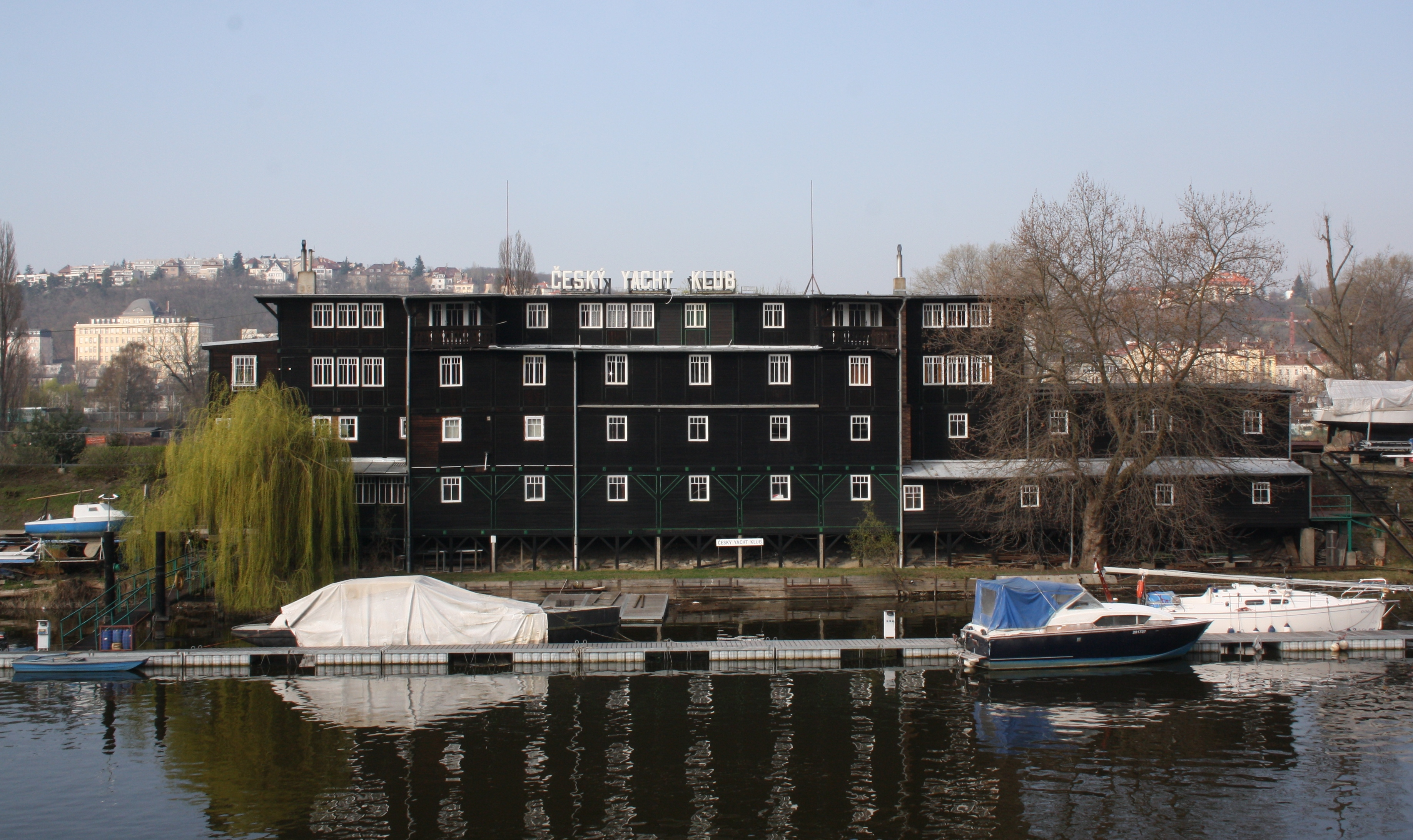 Building of Czech Yacht club, Prague, Czech Republic This photograph was taken with a DSLR from WMCZ's Camera grant.